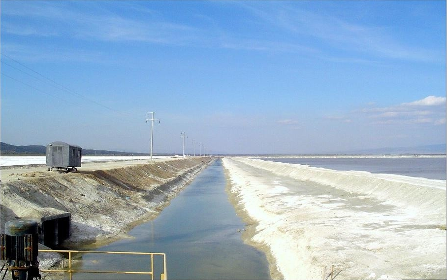 Lake Acıgöl, Turkey (Denizli Province, Afyonkarahisar Province).